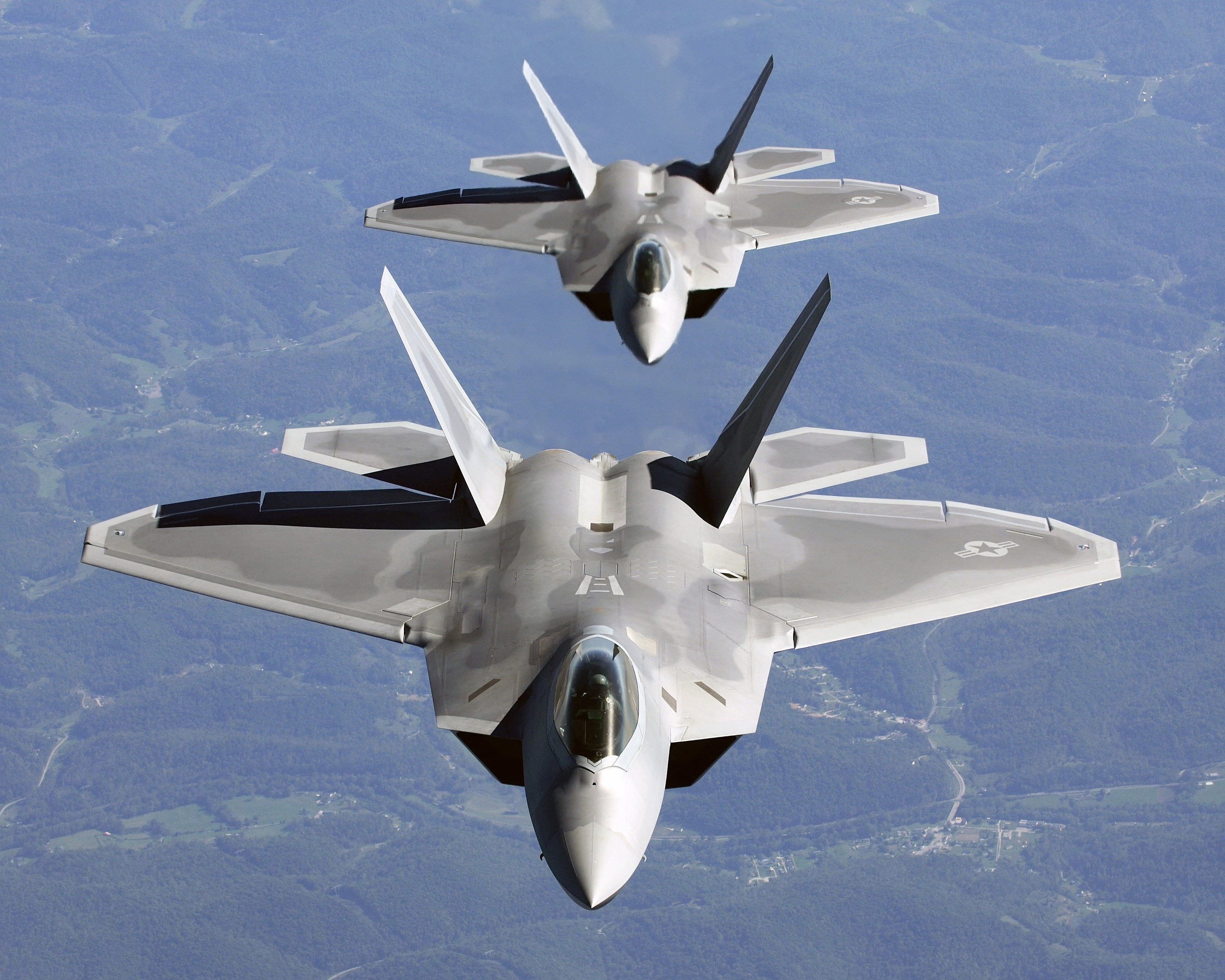 Lt. Col. James Hecker (front) and Lt. Col. Evan Dertein line up their F/A-22 Raptor aircraft behind a KC-10 Extender to refuel while en route to Hill Air Force Base, Utah. Colonel Hecker commands the first operational Raptor squadron -- the 27th Fighter Squadron at Langley Air Force Base, Va. The unit went to Hill for operation Combat Hammer, the squadron's first deployment, Oct. 15. The deployment has a twofold goal: complete a deployment and to generate a combat-effective sortie rate away from home. [U.S. Air Force photo by TSgt Ben Bloker]